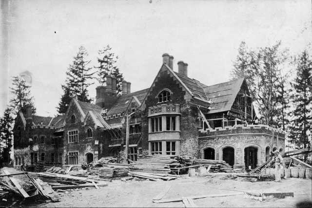 Thornewood Castle under construction circa 1910, Lakewood, Washington